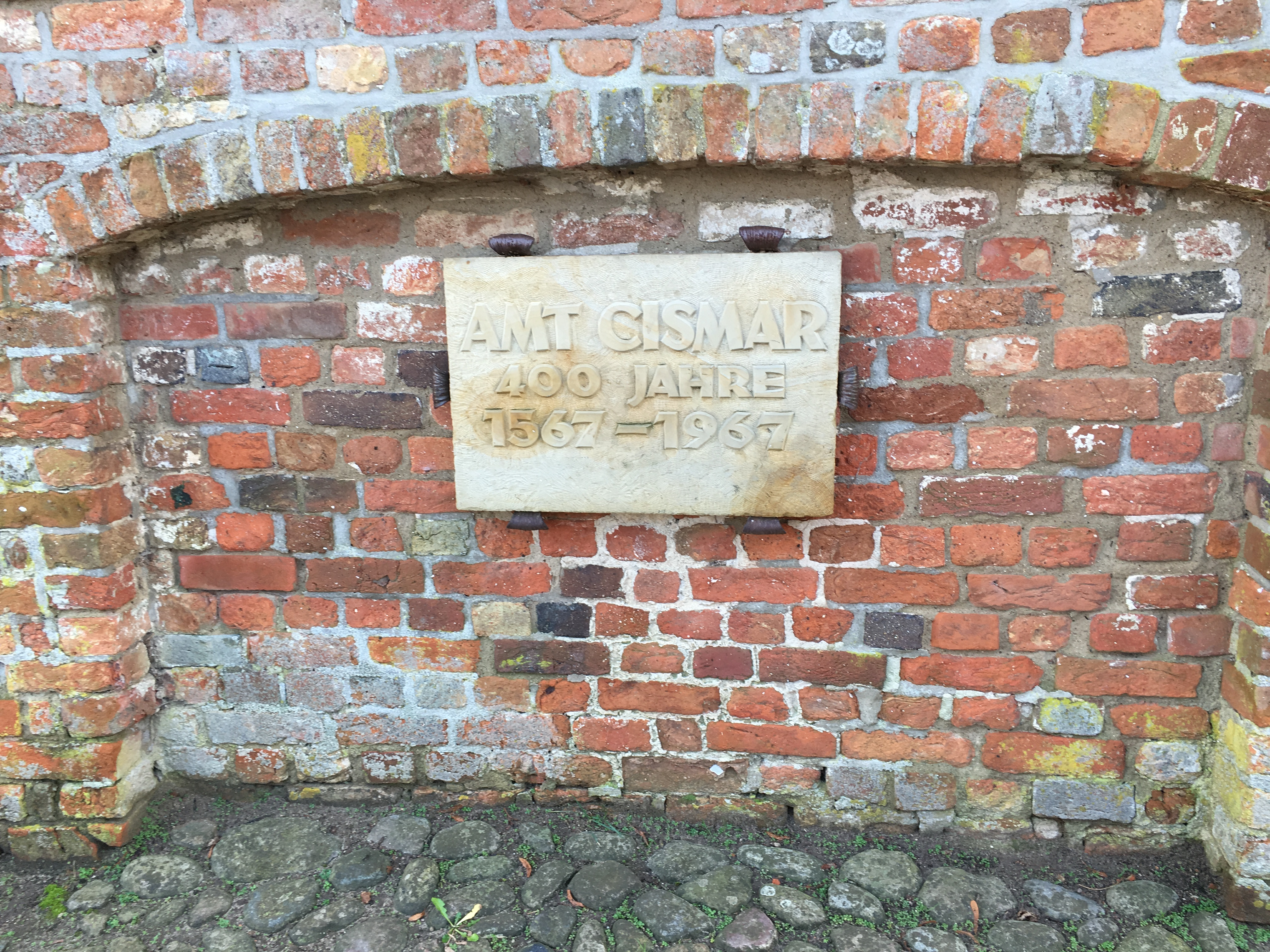 Plaque in Cismar